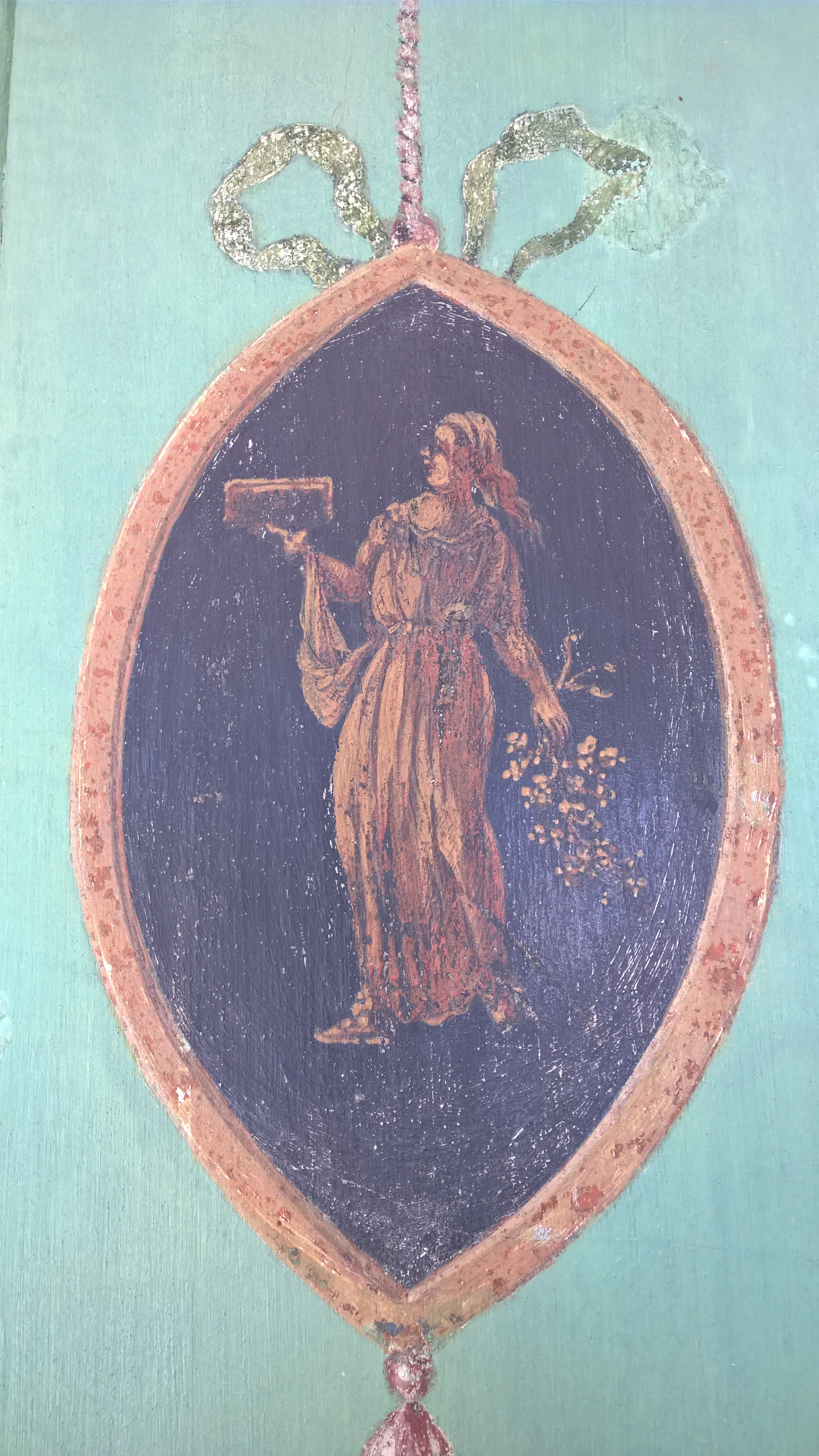 Wall Painting